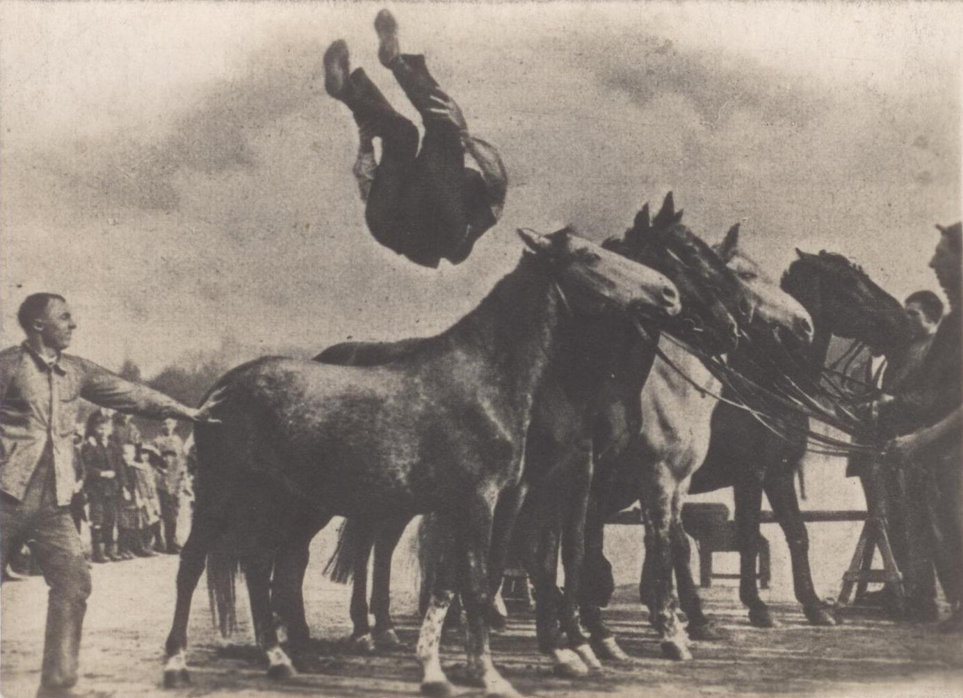 Bulgarian circus performer Lazar Dobrich, Berlin, 1912